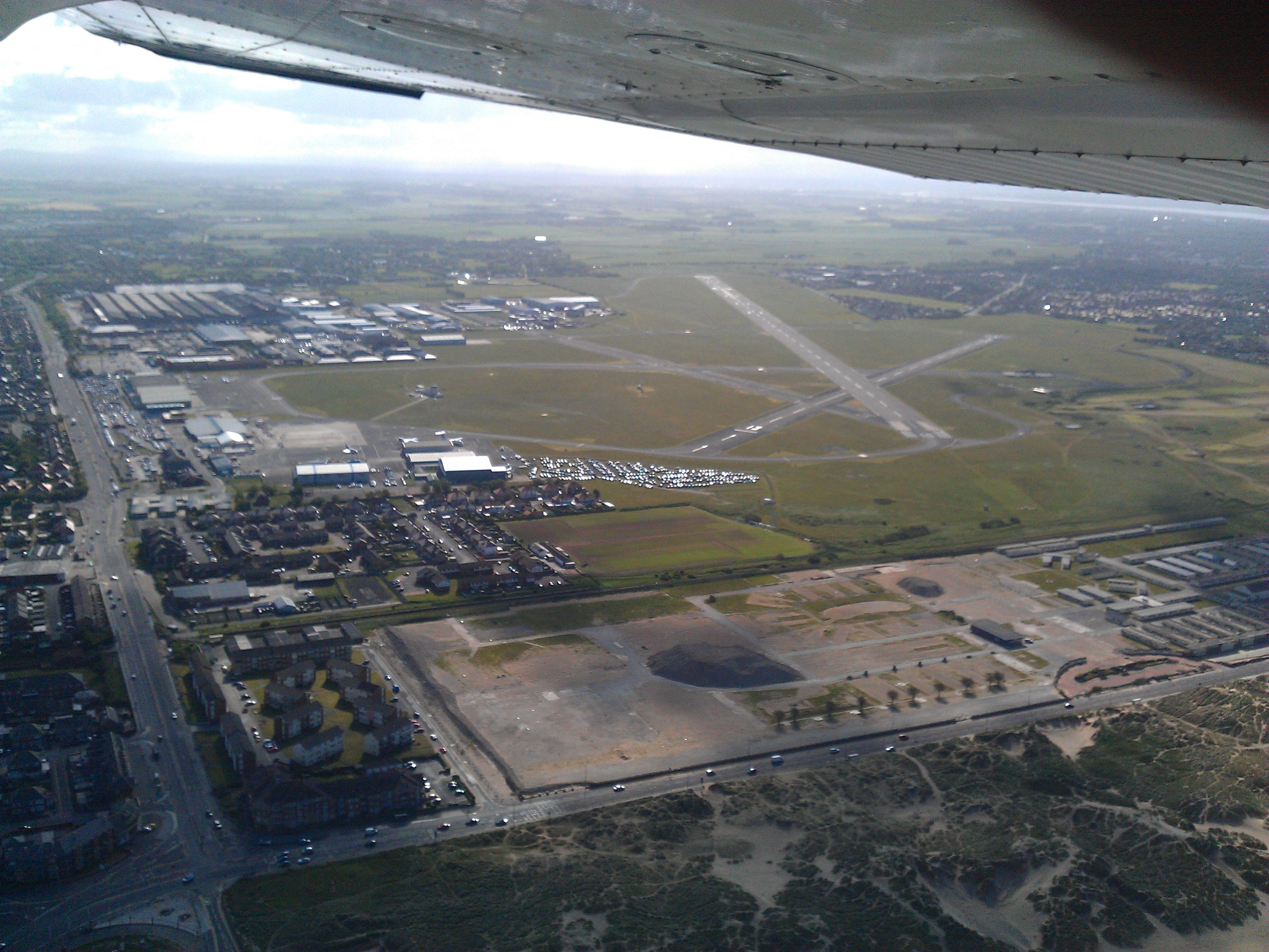 Blackpool Airport in 2011 (from air)